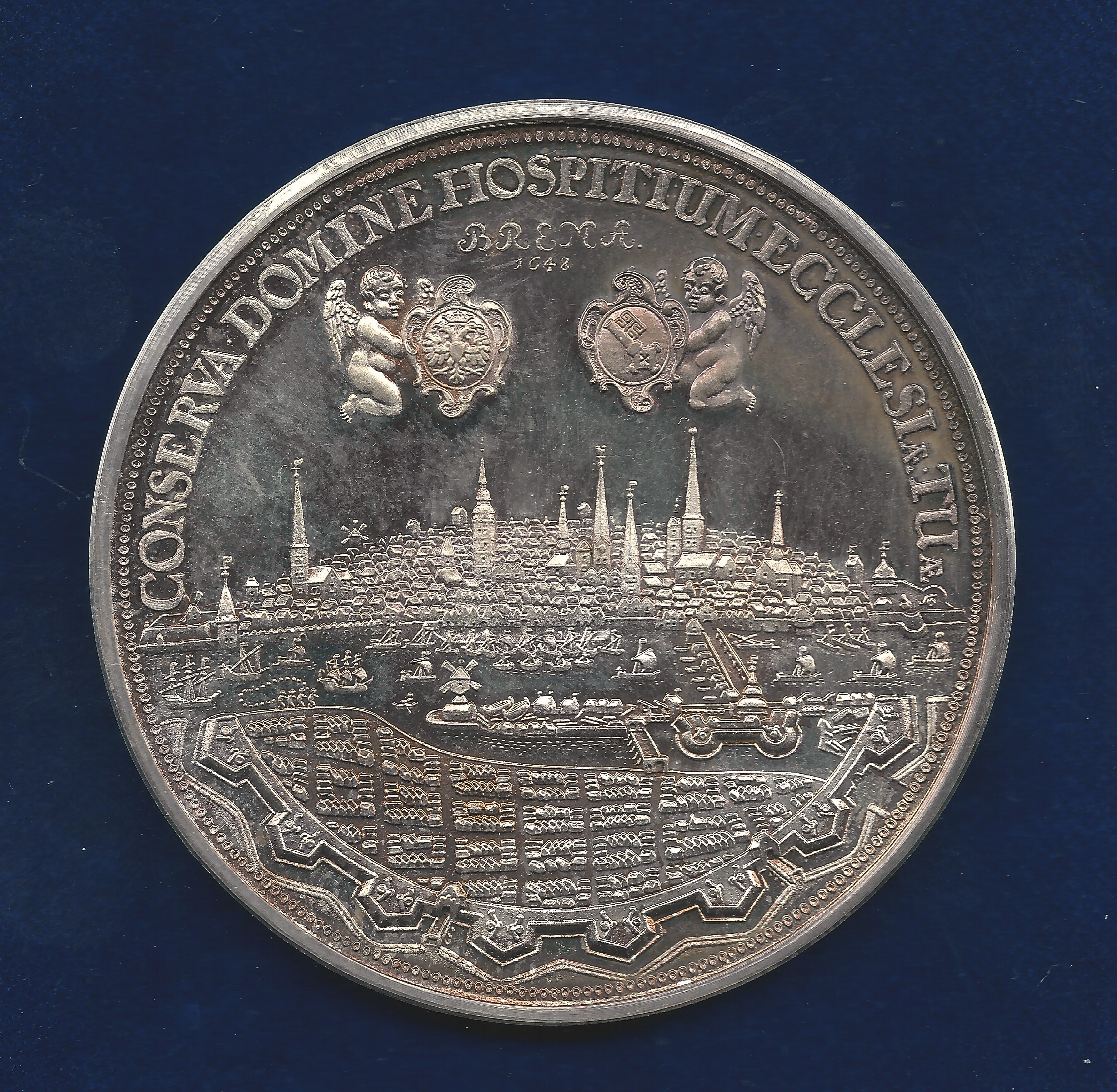 Medallion d. = 56 mm. 48.69 g Ag 1.000 Fine Silver Commemorating the Peace of Westphalia after the Thirty Years' War Curved above the Bremen Roland: "STATUA ROLANDI BREMENSIS"/ City view with a bridge over the river Weser with ships. Above 2 flying angels holding the shields of the emperor l., and of the Free City of Bremen r., and dividing 2 lines: "BREMA 1648". Curved above: "CONSERVA DOMINE HOSPITIUM ECCLESIÆ TUÆ". Forrer I, p. 201. According to legend, Bremen will remain free and independent for as long as Roland stands watch over the city. For this reason, it is alleged that a second Roland statue is kept hidden by the State of Bremen in the town hall's underground vaults, which can be quickly installed as a substitute, should the original fall. Today Bremen is one of the 16 States of the Federal Republic of Germany. Medallist: J. (Johann) Blum, about 1599 Bremen - after 1689 Condition: PROOF